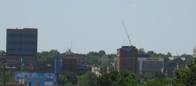 Downtown Sioux Falls, South Dakota. Looking west. Taken 9 June 2007 by Jon Platek.